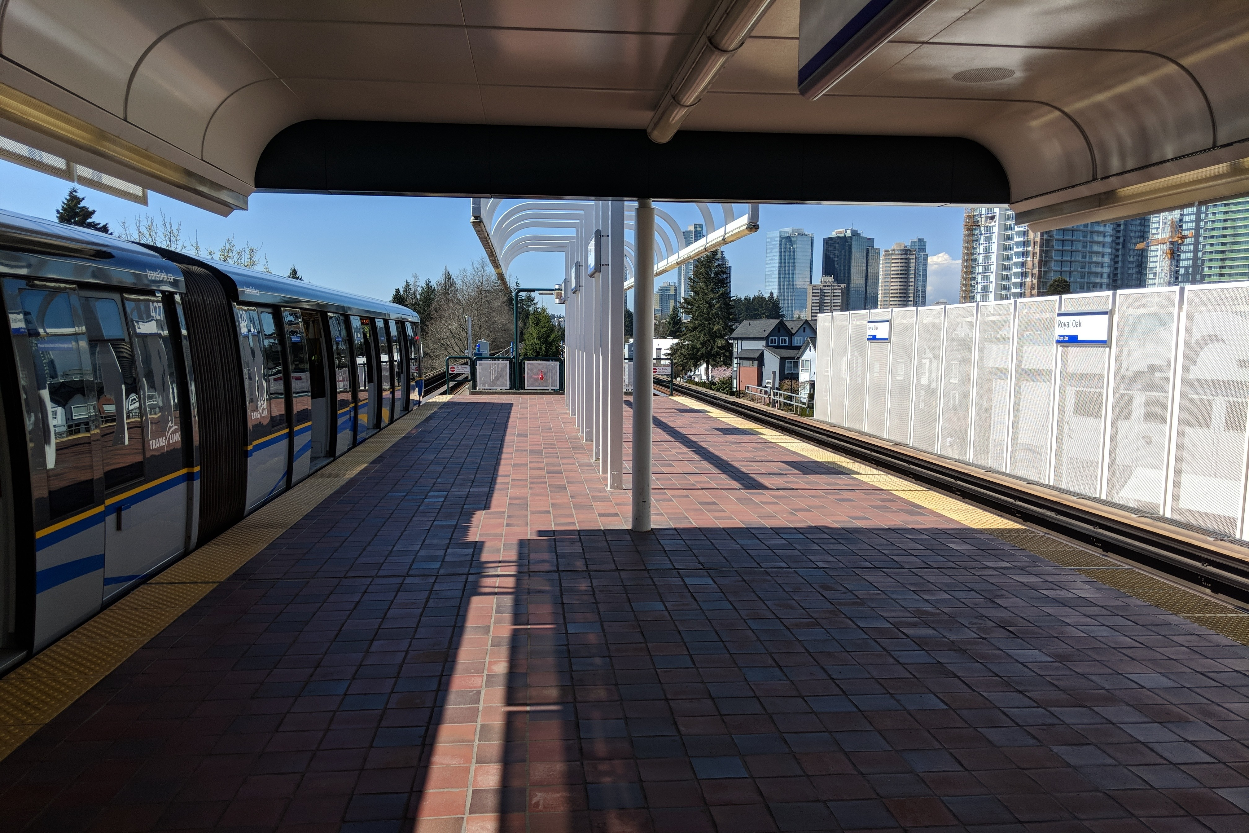 Platform level at Royal Oak station. An eastbound train with service to either King George or Production Way–University station is seen at Platform 2.